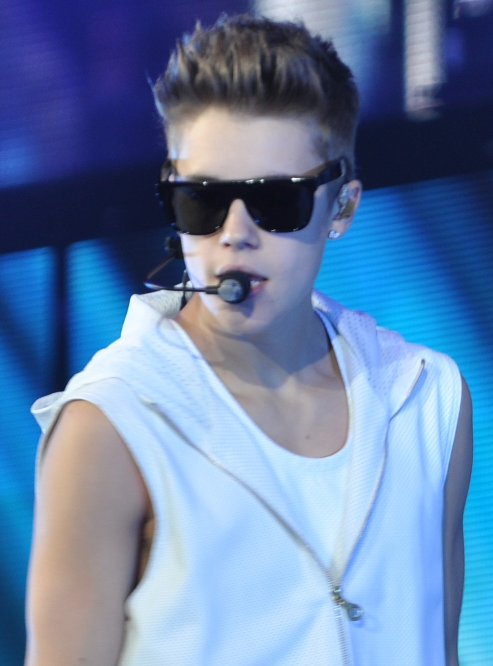 Justin Bieber performing Believe Tour in October 20, 2012.